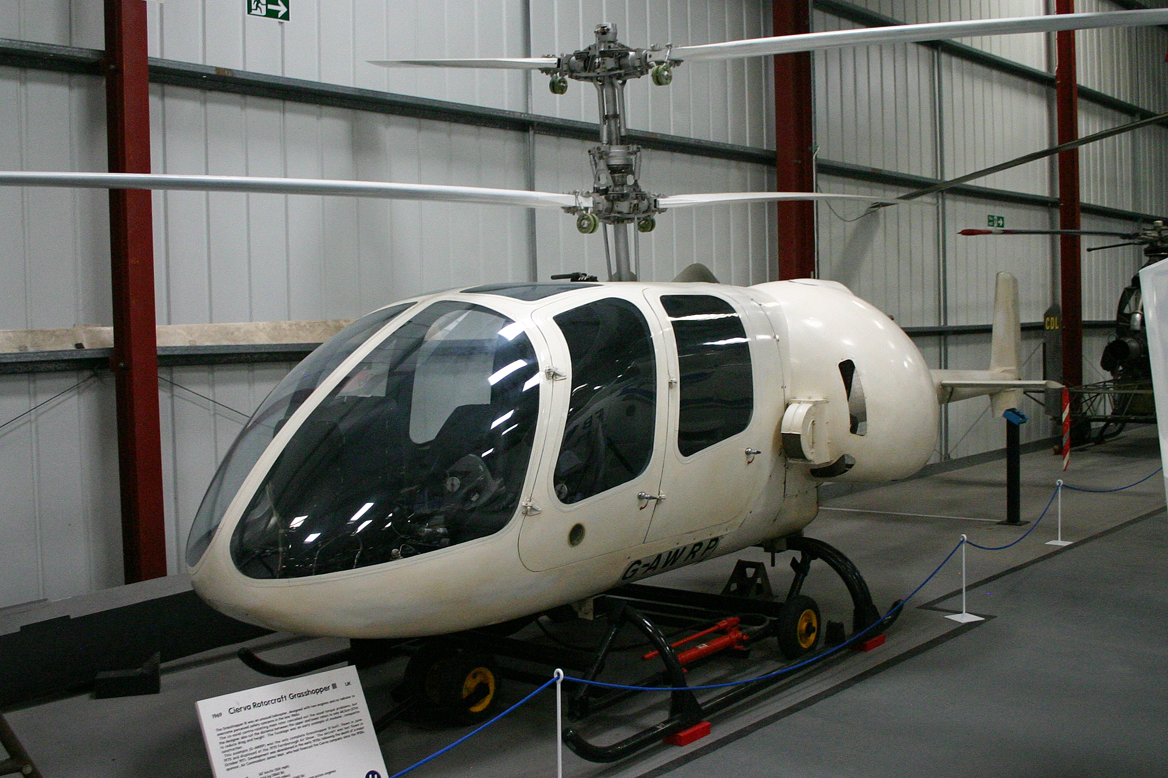 Prototype. msn GB.1. International Helicopter Museum. Weston-Super-Mare. 15-6-2011